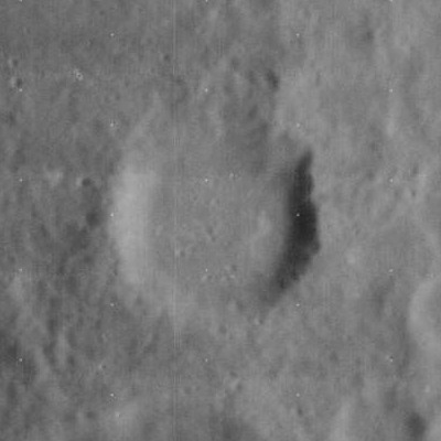 Carrington crater, on the moon. Brightness and contrast adjusted from original.